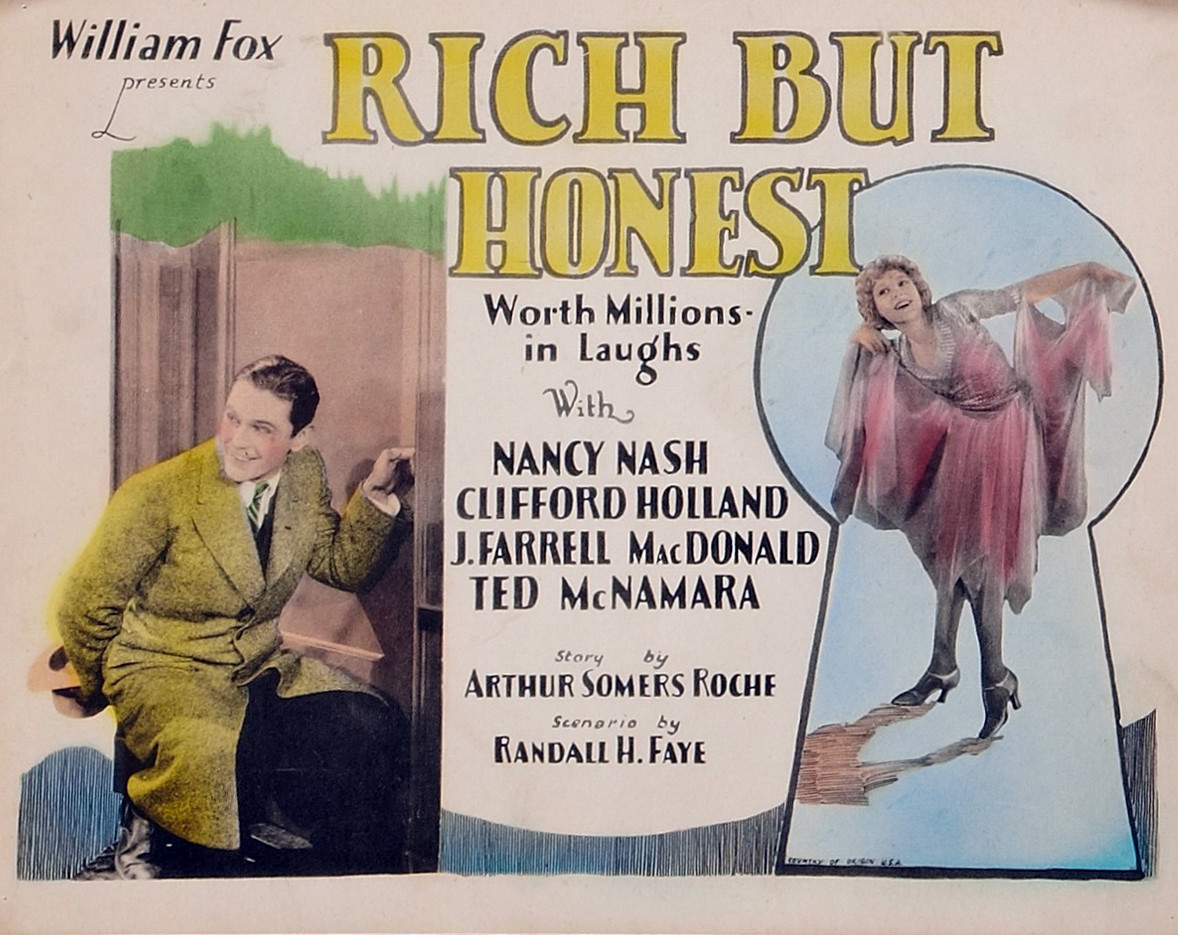 Lobby card for the American film Rich But Honest (1927) with Nancy Nash and John Holland (credited as Clifford Holland).